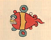 drawing from the codex Magliabechiano, traditional manta ornament